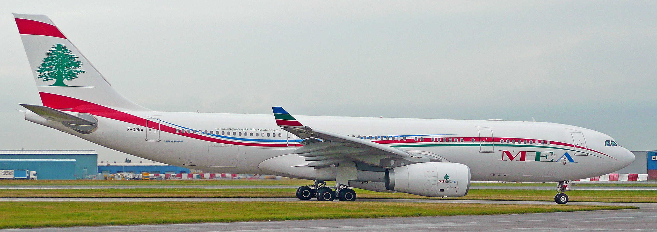 F-ORMA A332 MEA taxying for take off after it's first visit